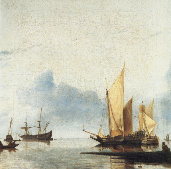 Yacht and Other Boats